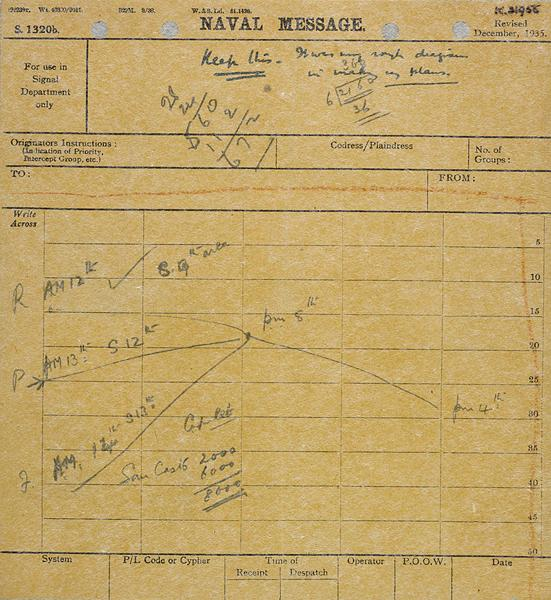 Facsimile copy of the sheet from a naval signal pad on which Commodore H H Harwood drew the possible future movements of a German pocket battleship (later known to be the Admiral Graf Spee, with calculations for interception, after he received news of the attack on the SS Doric Star in the South Atlantic on 2 December 1939; together with two captions added by the Imperial War Museum explaining the document.